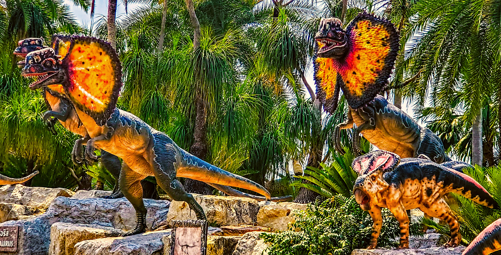 Nong Nooch Dinosaur Valley, Thailand Photo: Monica E. Del Coro (TDelCoro) February 24, 2020